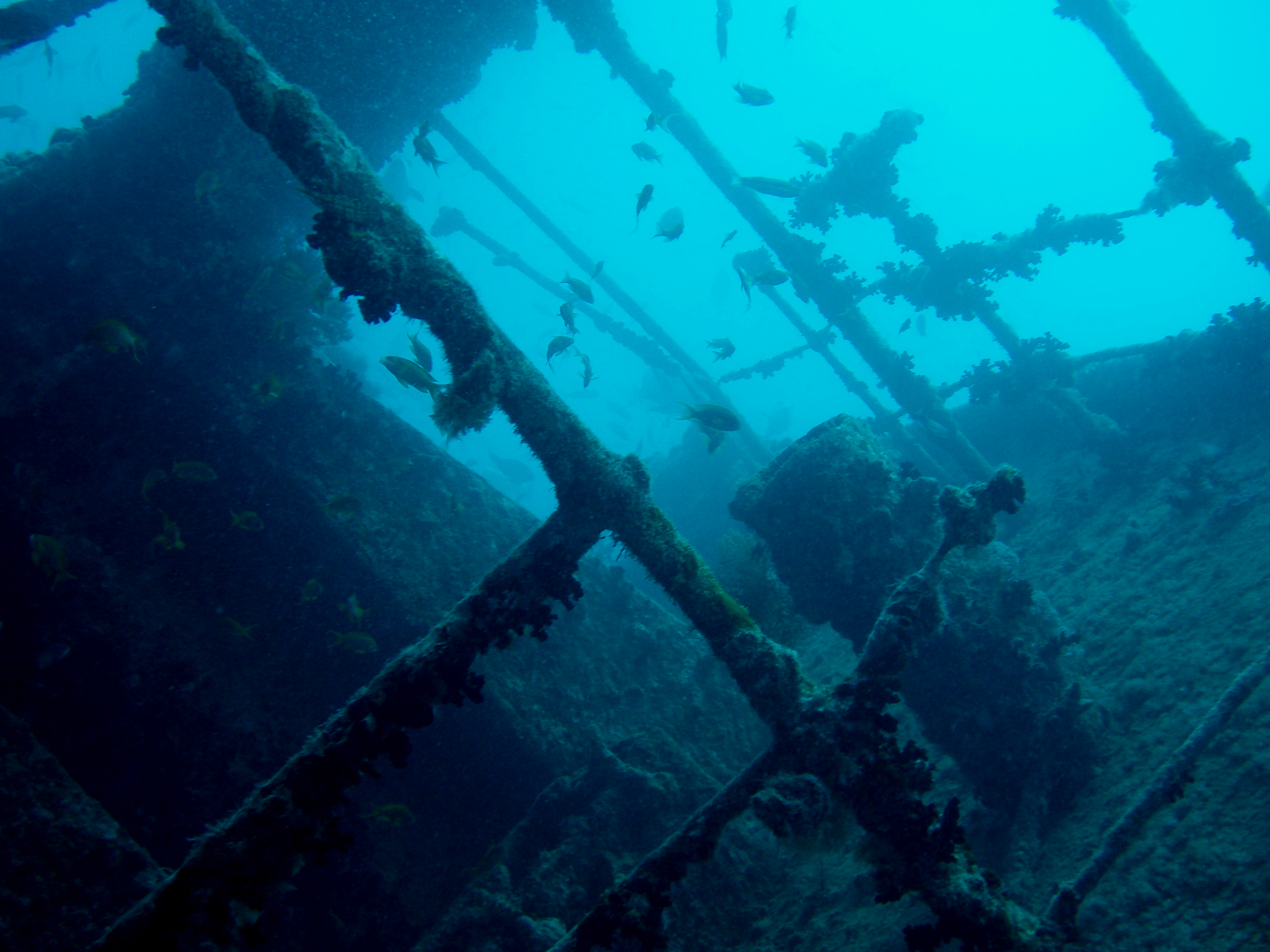 A view aft of the bridge of the SS Thistlegorm, a supply ship sunk in the Red Sea near Ras Muhammed, Sharm el Sheikh